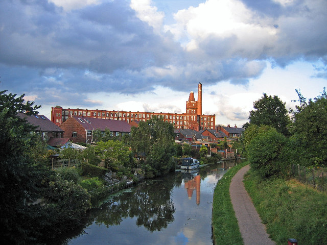 Tulketh Mill, Ashton, Preston. Taken from the canal bridge on Woodplumpton Road. Tulketh Mill is now a mail-order catalogue distribution and call centre.